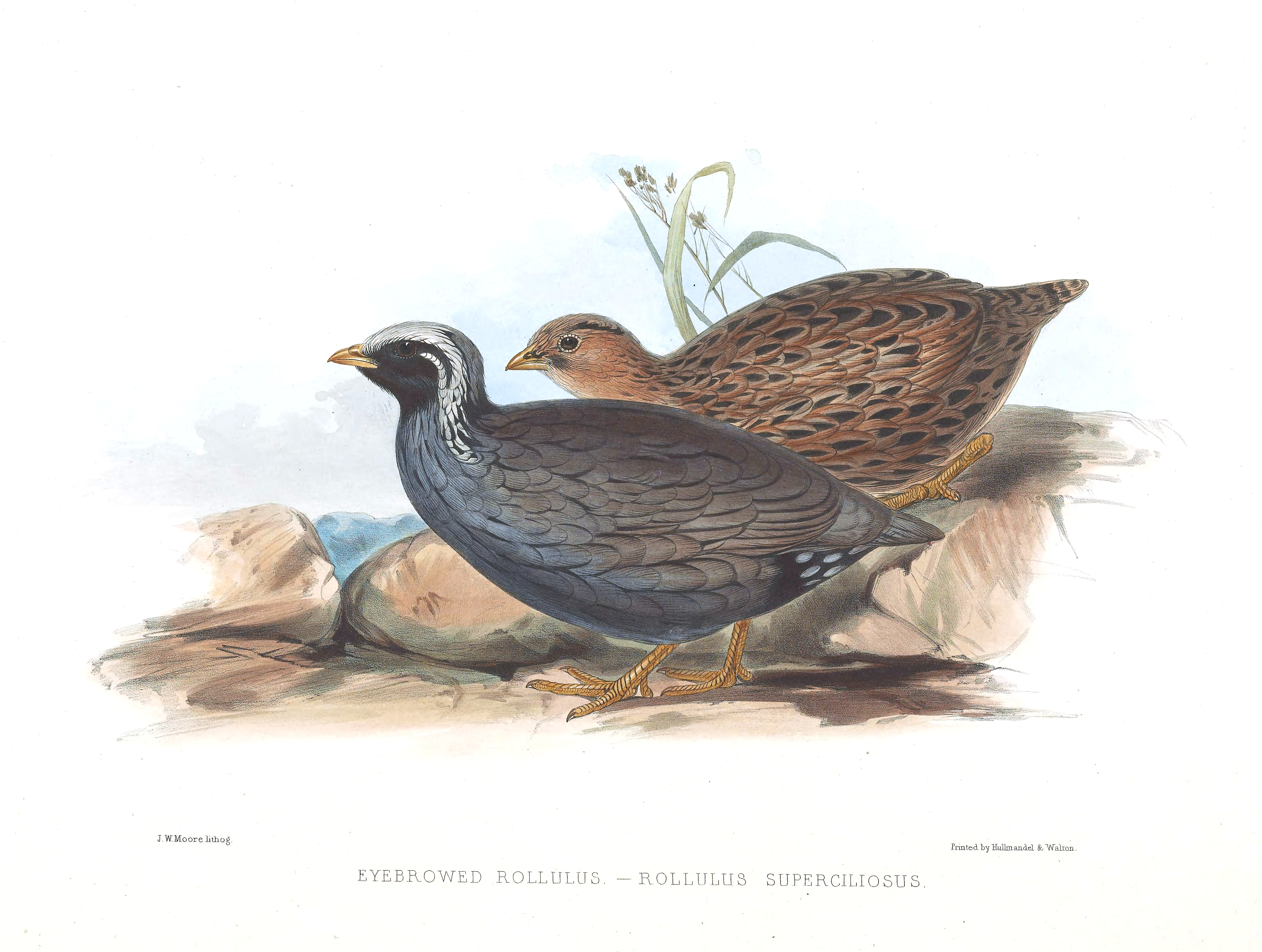 Illustration of Ophrysia superciliosa by Edward Lear